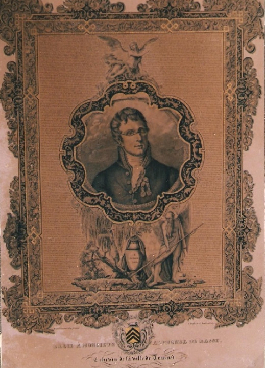 Charles de Rasse